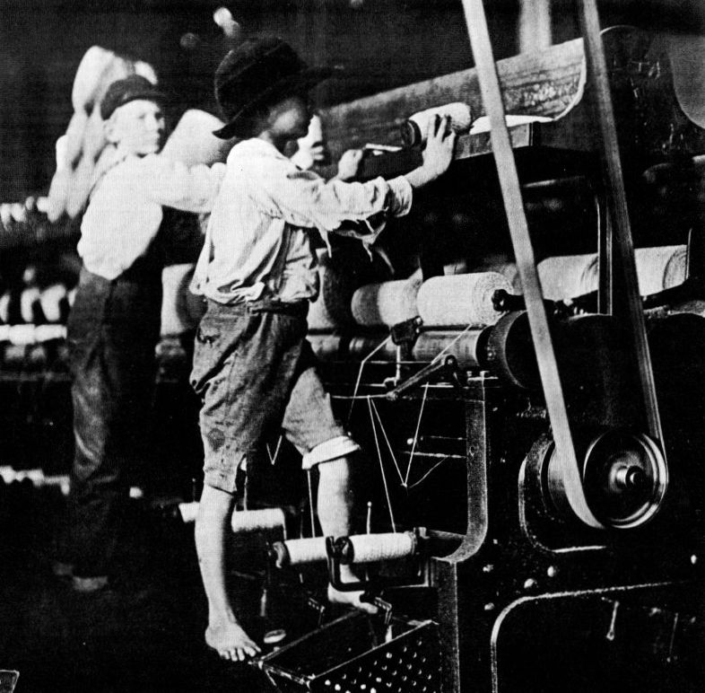 Child Labor in the Textile Mills. The Lawrence textile strike was a strike of immigrant workers in Lawrence, Massachusetts in 1912 led by the Industrial Workers of the World.